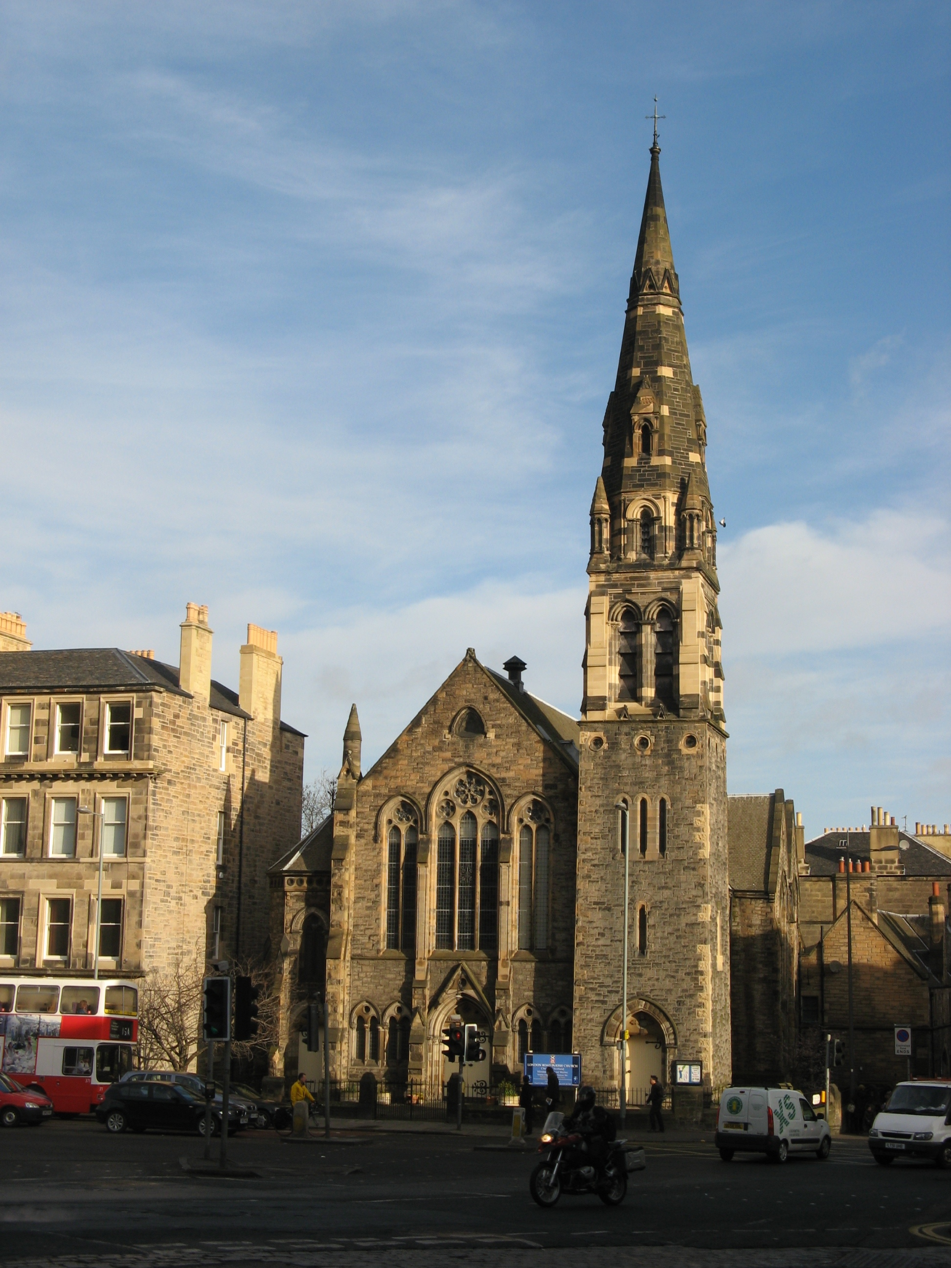 London Road Parish Church, on the corner of London Road and Easter Road, Edinburgh. Church of Scotland.